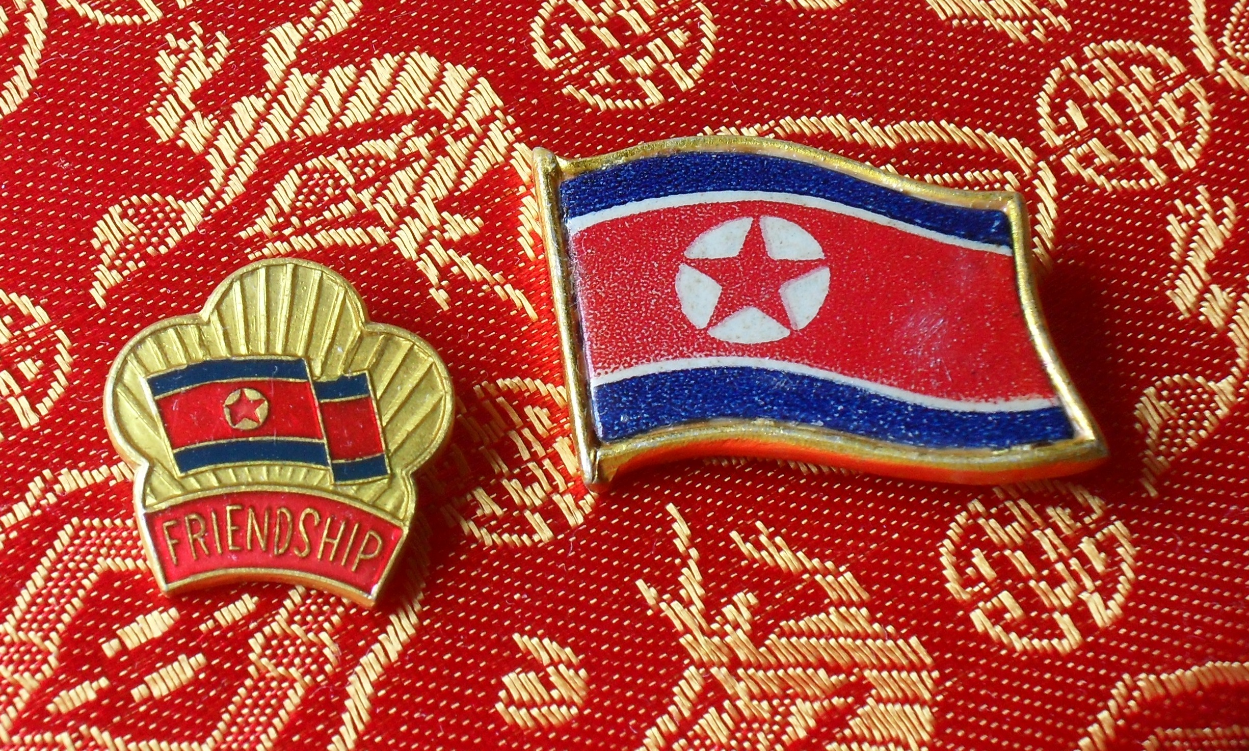 Pins from DPRK